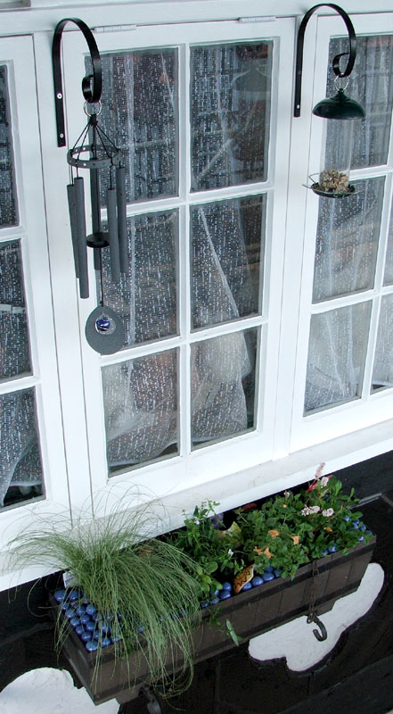 Latticed window and window box in place (on a fourth floor). Photograph by Alison Wheeler. Taken 29-06-2006